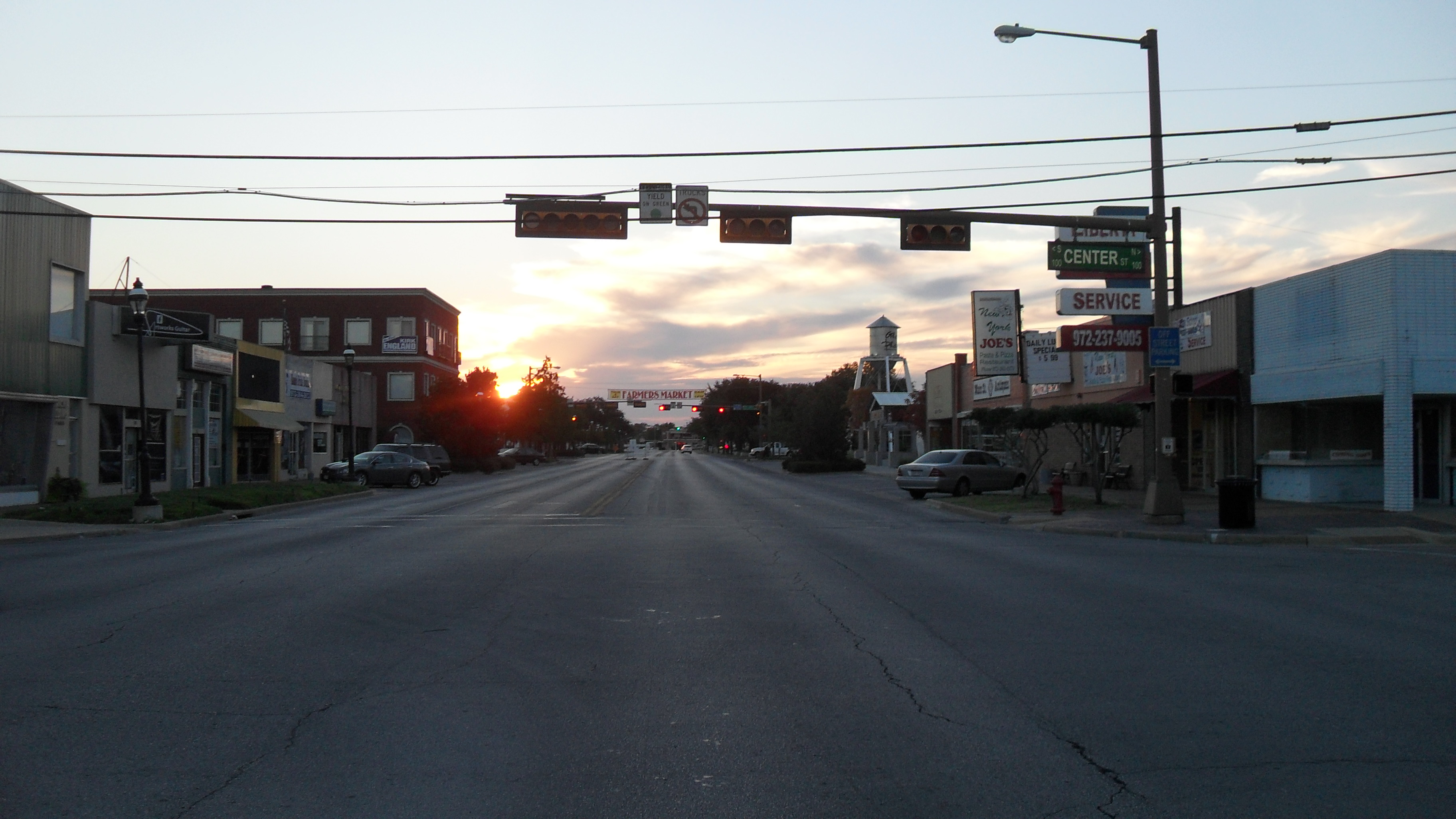 Looking West down Main Street from the Center St./Main St. intersection, Grand Prairie, Texas, United States.